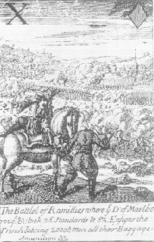 18th century playing card depicting the decapitation of the Duke of Marlborough's aide, Colonel Bringfield.